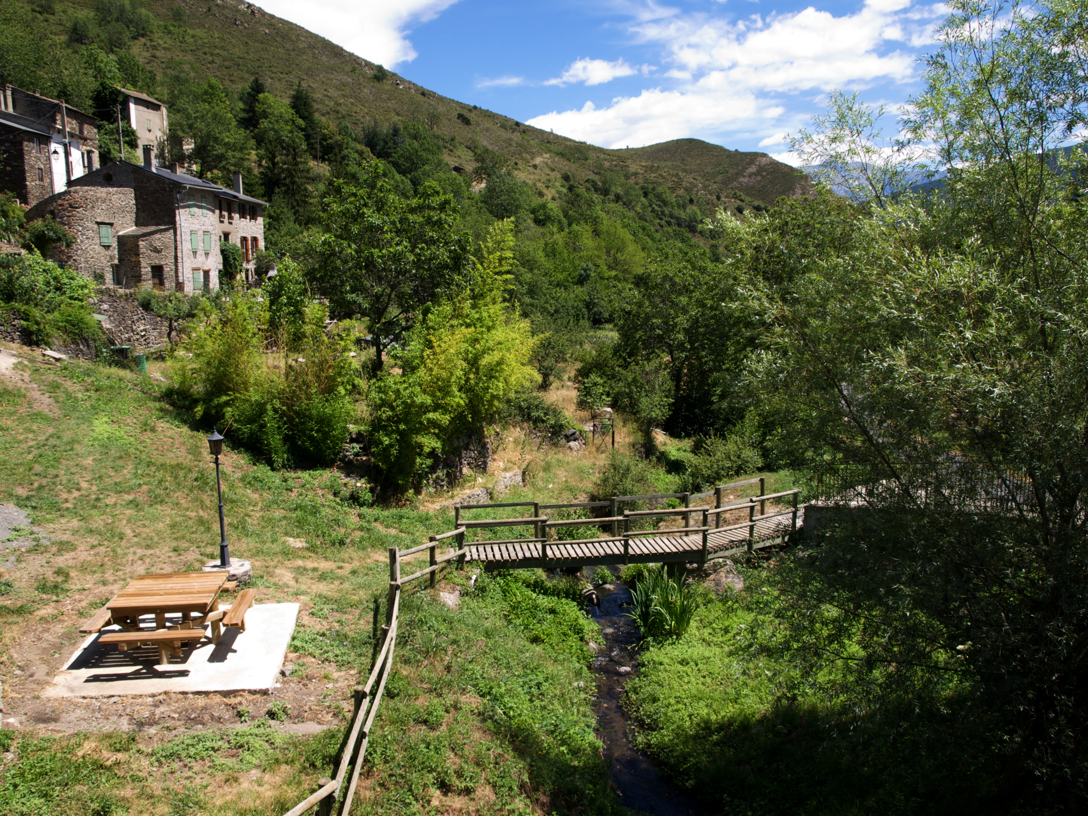 Photo of the little french town Urbanya